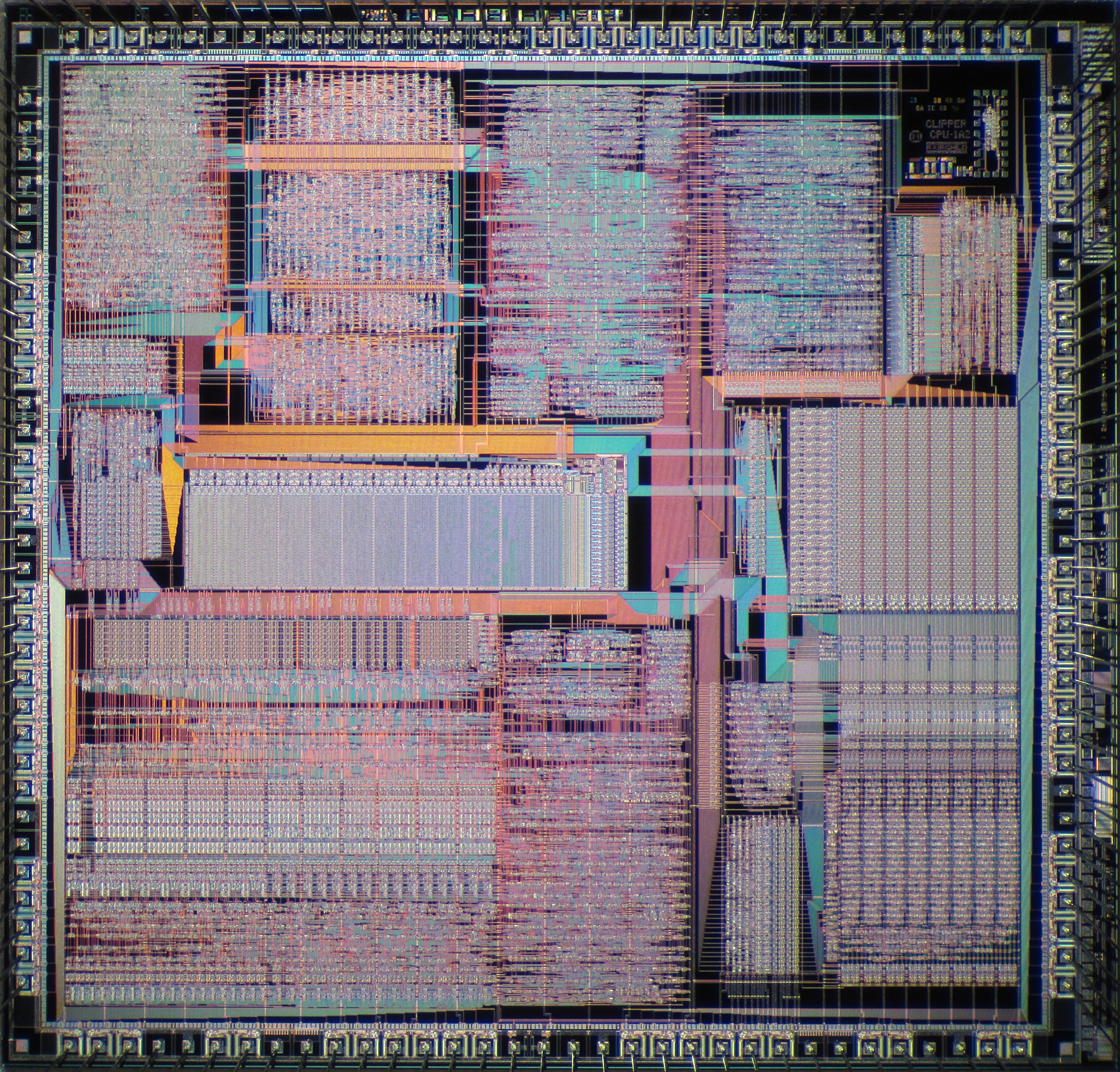 Die shot of Intergraph Clipper C100 microprocessor (CPU) marked C111C1Q.